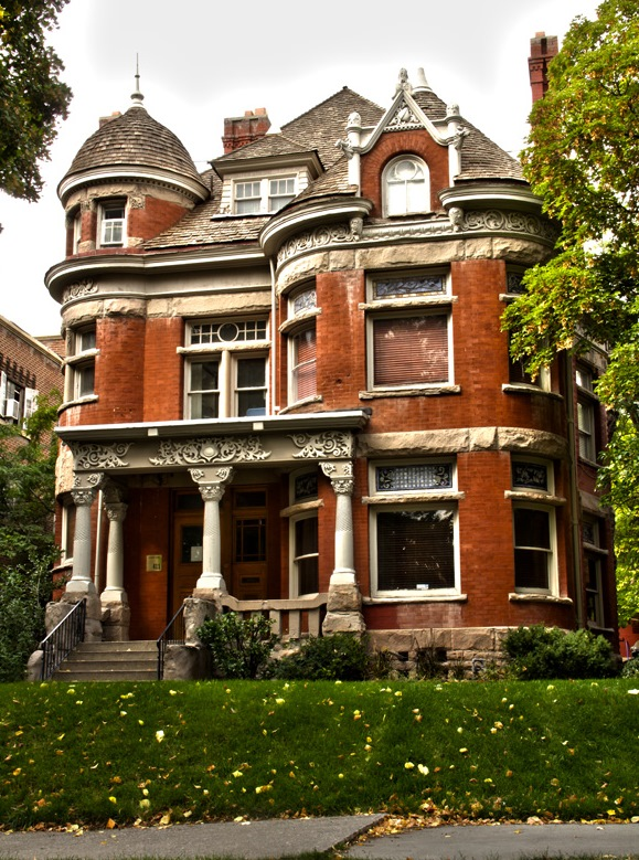 Henry Dinwoody House